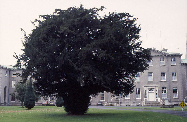 Ireland's oldest native tree, the Silken Thomas Yew, is 700-800 years old.The tree was described by the Irish Times in October 2011 in an article entitled, Trees of life and lineage – Ireland's champion trees: "According to Aubrey Fennell, the man with the responsibility for measuring and recording every one of Ireland’s heritage trees for the Tree Council of Ireland, Ireland’s oldest native tree is the Silken Thomas Yew tree (Taxus baccata) growing in the grounds of St Patrick’s College in Maynooth. When last measured, it had a girth (the tree version of a waist measurement) of 14 metres and is estimated to be in the region of 700-800 years old. As for Ireland’s tallest native tree, the record is held by a 40-metres high ash tree ( Fraxinus excelsior ) growing in the grounds of Marlfield House, Clonmel, Co Tipperary."